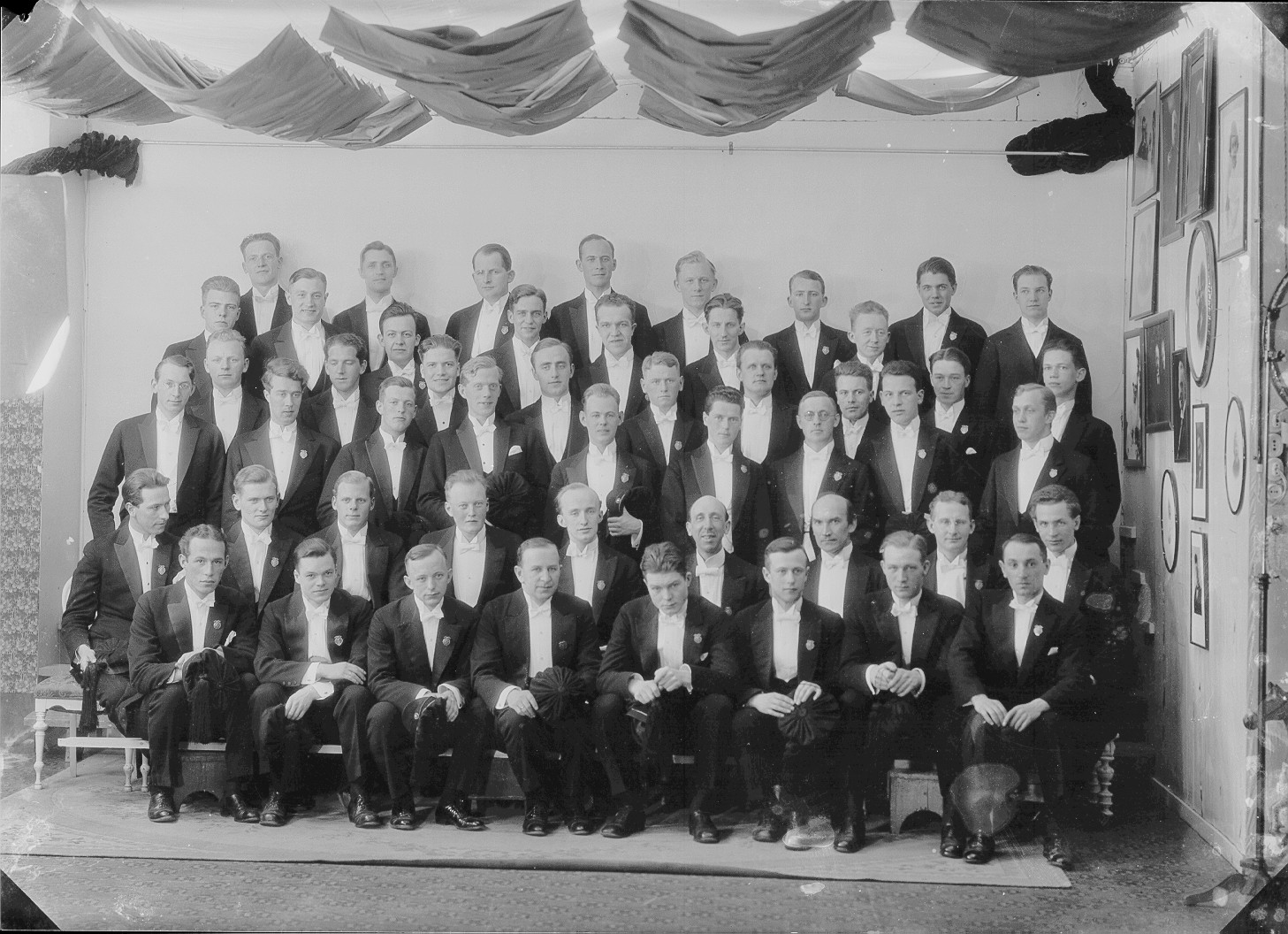 Trondhjems studentersangforening is a male choir from Trondheim, Norway.